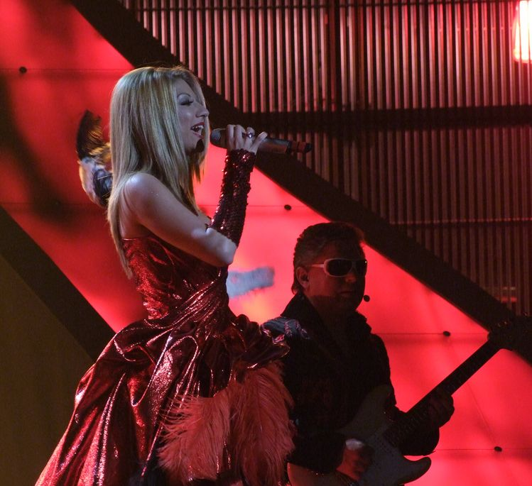 Joanna Dragneva, aka Joanna, lead vocal of Deep Zone Project from Bulgaria, performing DJ, Take Me Away at second semi-final, Eurovision Song Contest 2008 in Belgrade, Serbia, May 22, 2008.